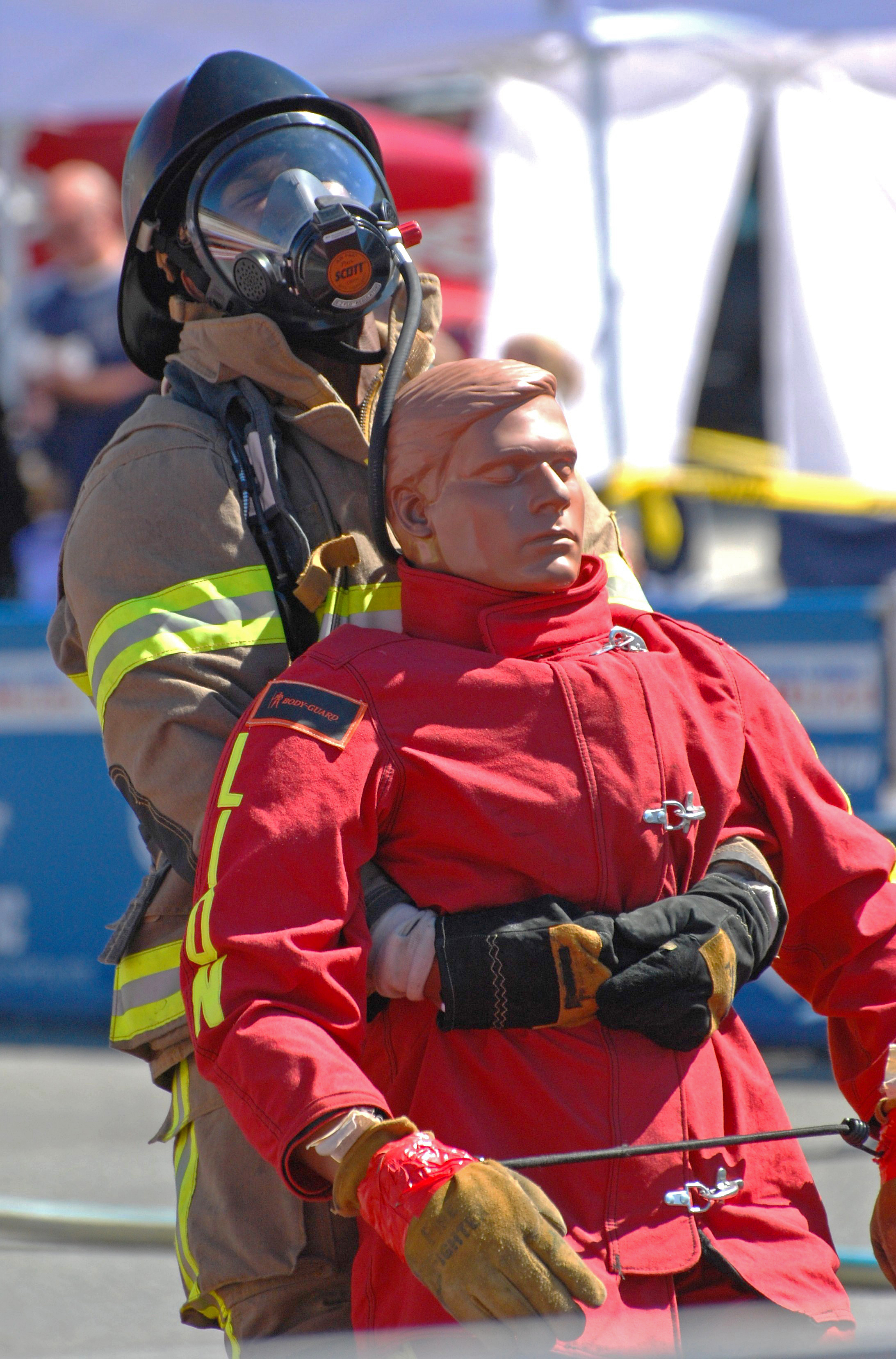 The Red Side